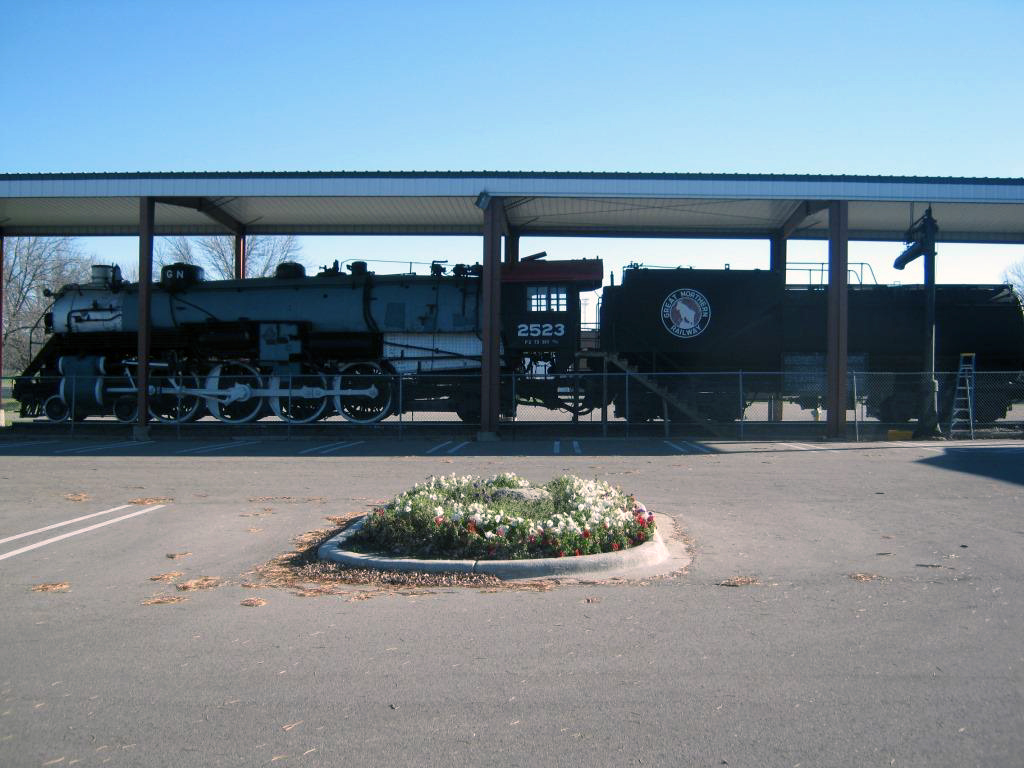 Great Northern class P-2 Mountain (4-8-2) #2523 is a survivor of the steam engines acquired by the Great Northern Railway to speed up mainline passenger service. Number 2523 is the last of 28 locomotives built for the Great Northern by the Baldwin Locomotive Works. It was built in 1923 and retired in 1958. It was placed at the museum grounds on permanent display in October 1965.